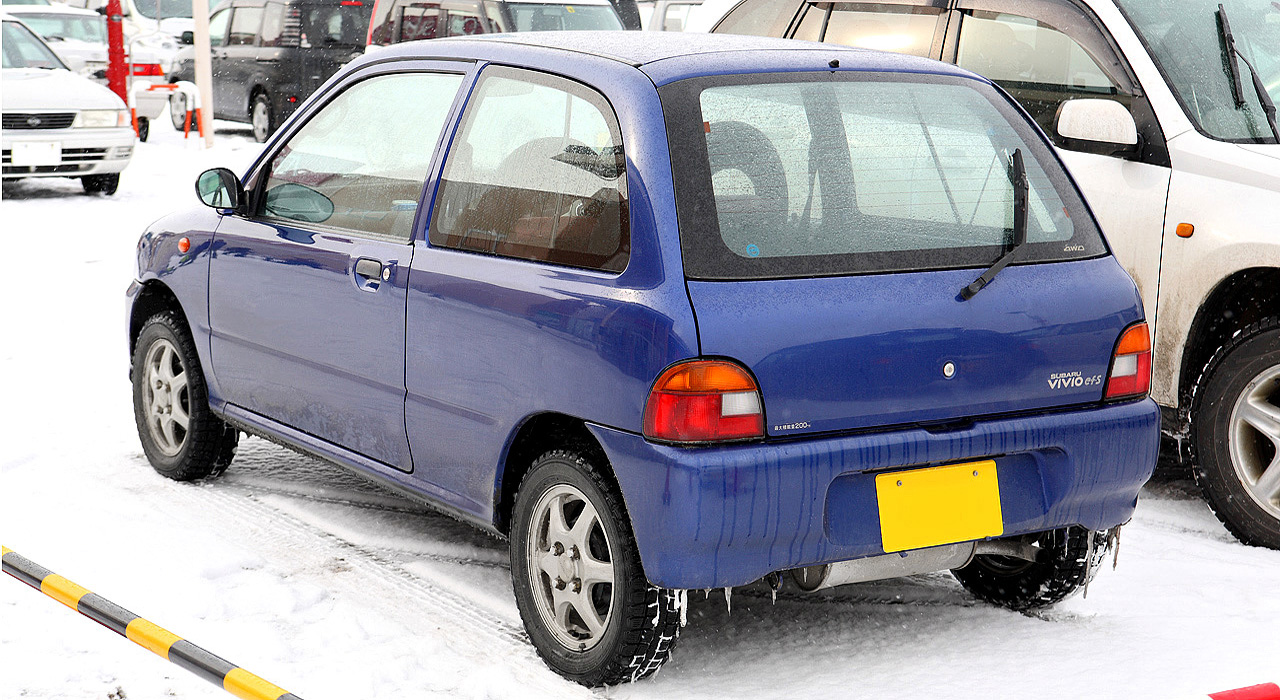 Subaru Vivio Van ef-s 4WD